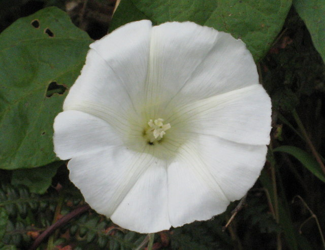 Bindweed (Calystegia sepium ) In the hedgerow at Trevorgans. This plant, much-detested by gardeners, actually has a very pretty flower.